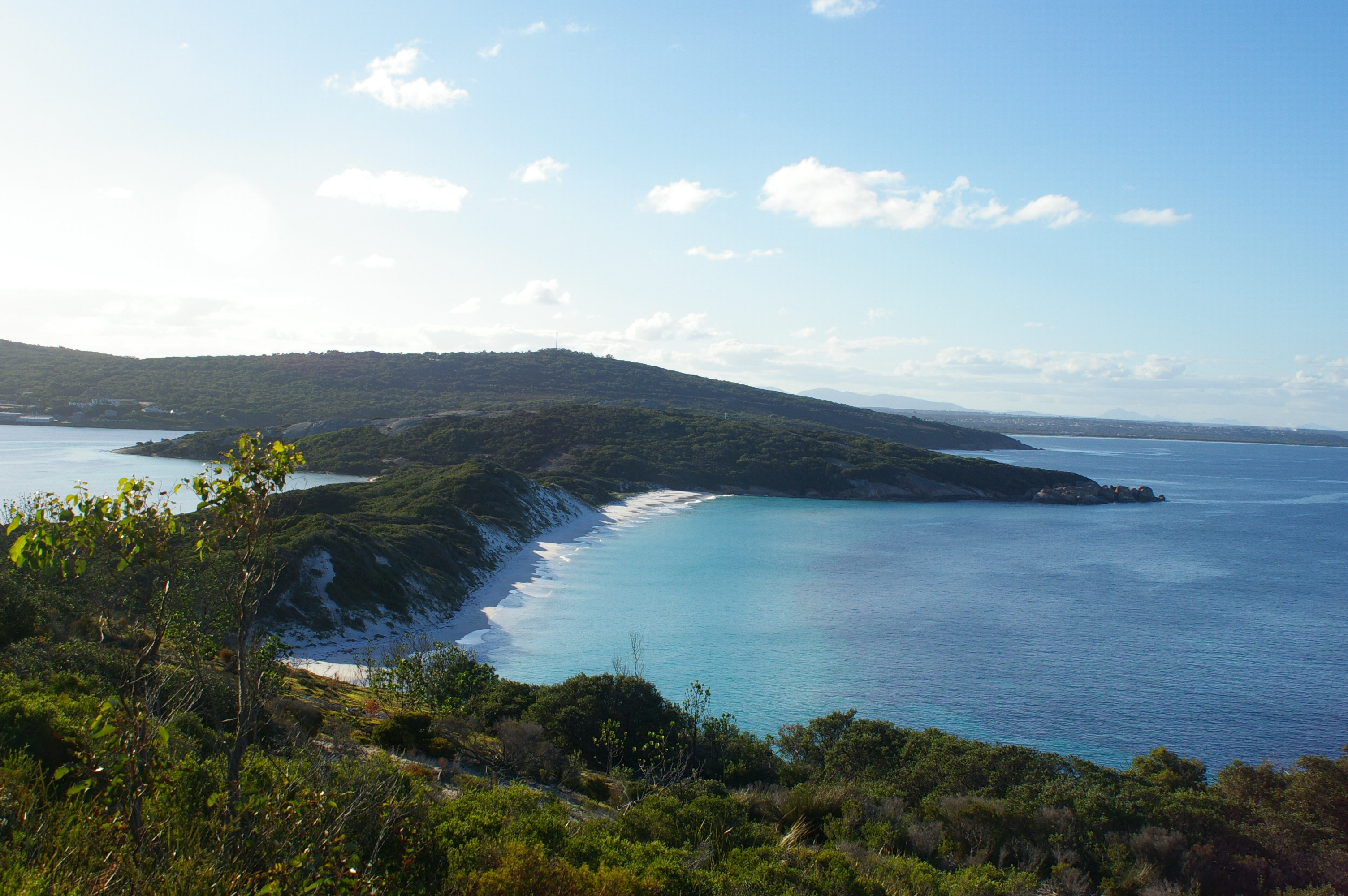 Point Possession on Vancouver Peninsular overlooking Ataturk enternace to the port of Albany with Mount Adelaide in the background